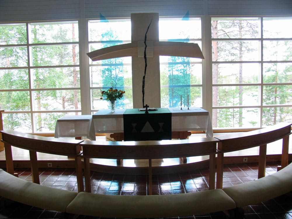 Altar of Lentiira church, Kuhmo, Finland